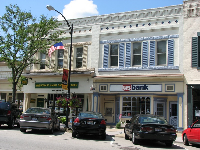 Photograph of the Howard Hanna Smythe Cramer and US Bank on North Main Street in Hudson, Ohio.